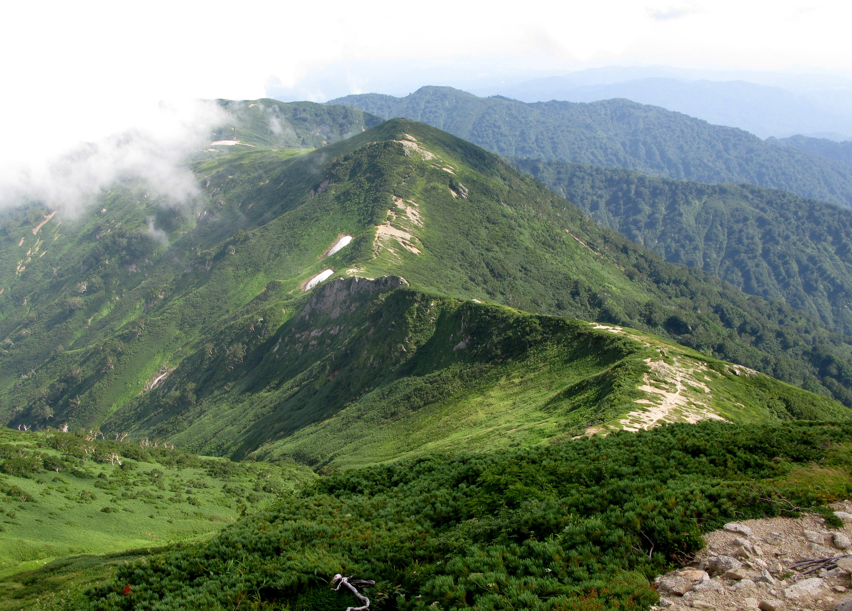 The approach to Shrine Iide-san-jinja, Kitakata city, Fukushima pref., Japan